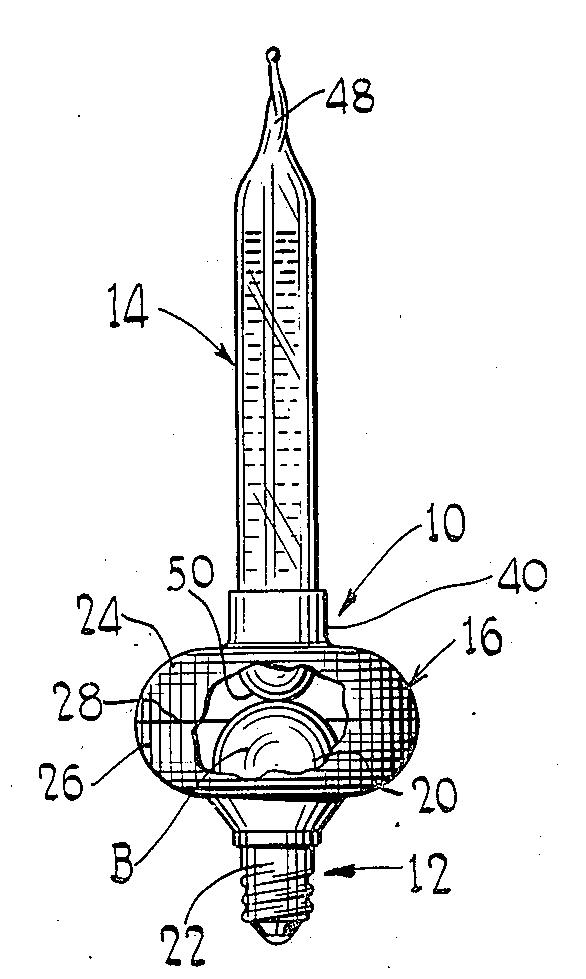 A Christmas bubble light, as depicted in a drawing in US Patent #2,353,063.